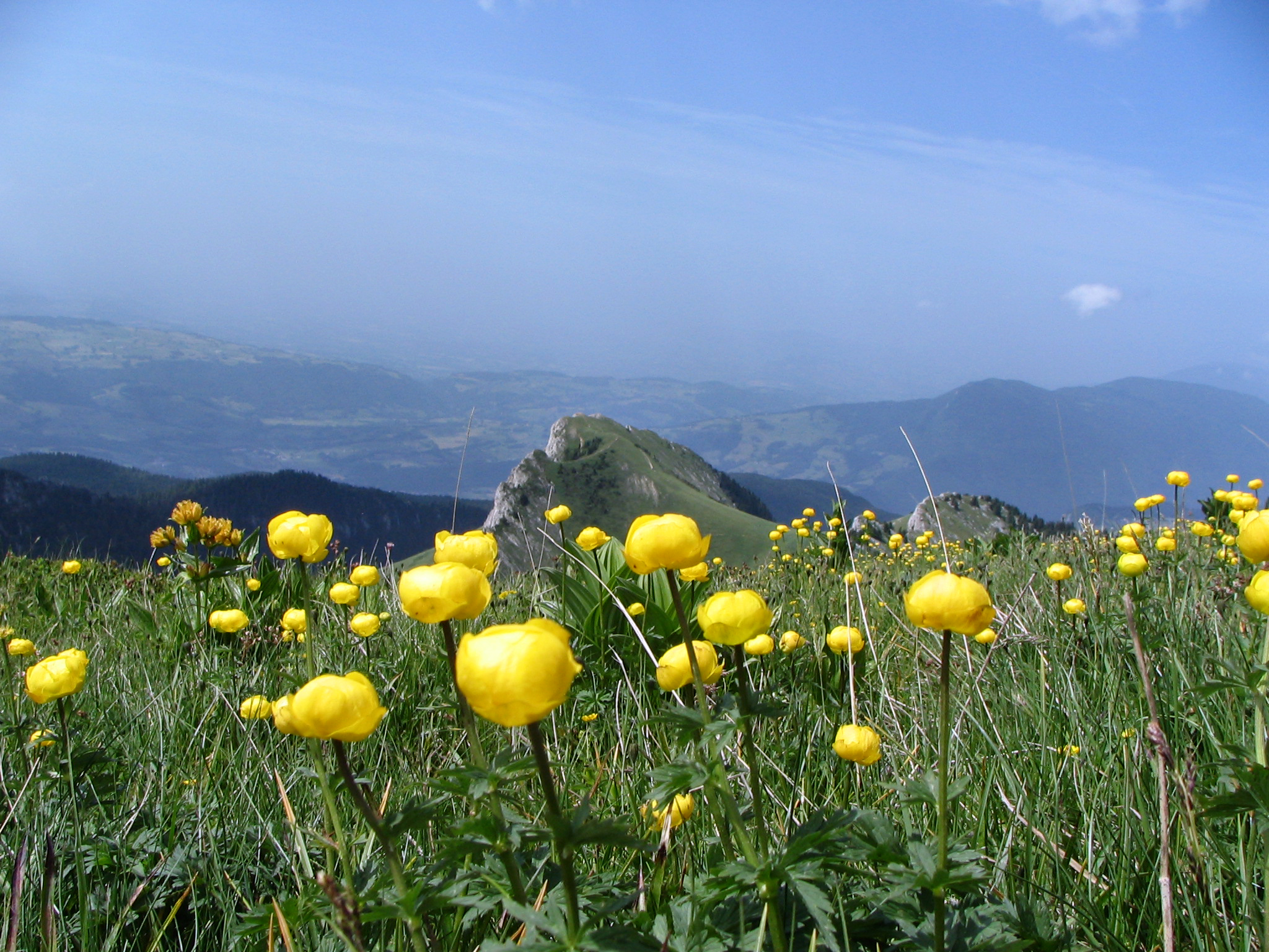 Trollius europaeus, Massif de la chartreusse, France.